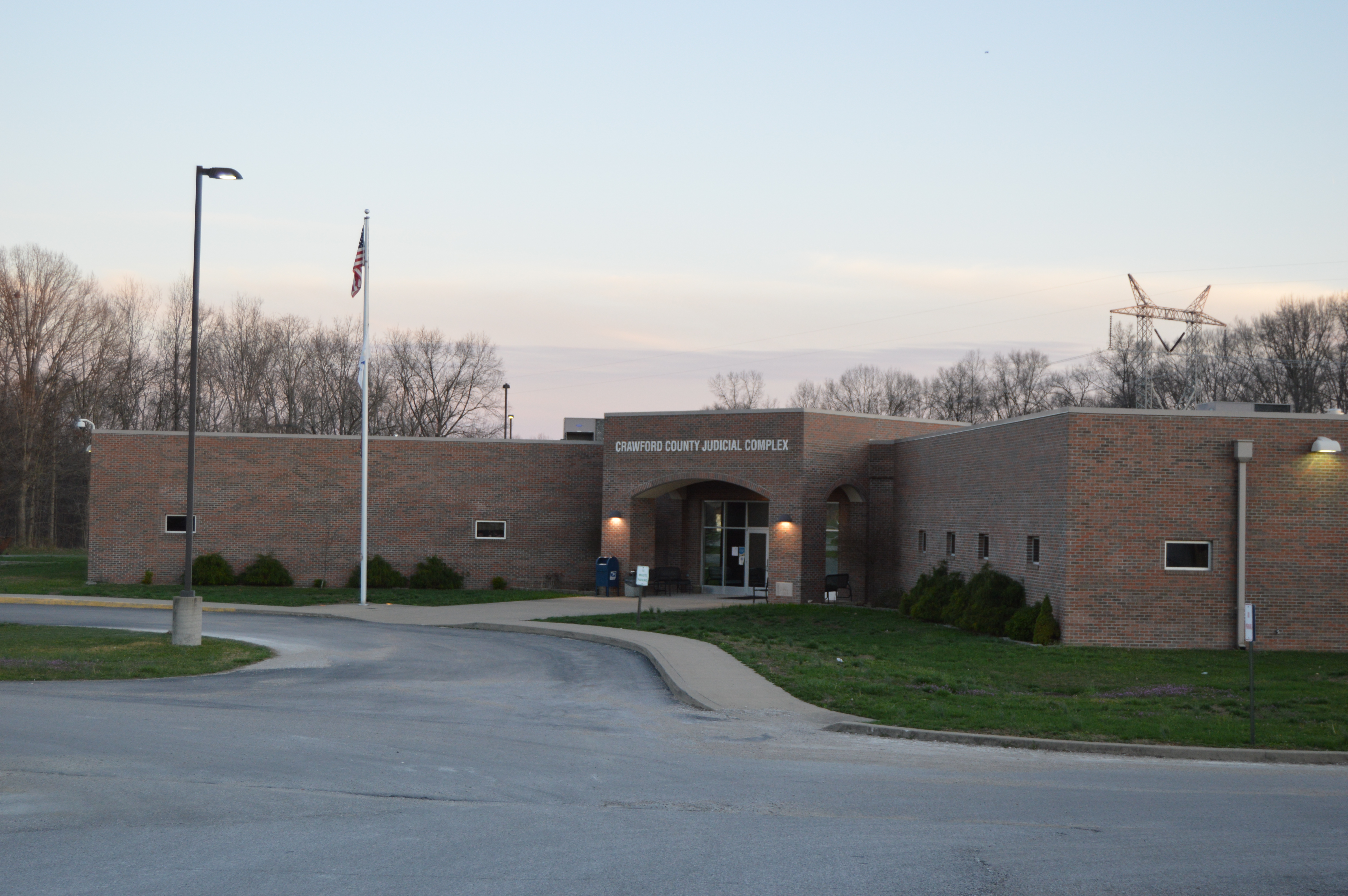 Front of the Crawford County Courthouse, located at 715 Judicial Plaza Drive in English, Indiana, United States. It was built in 2003.